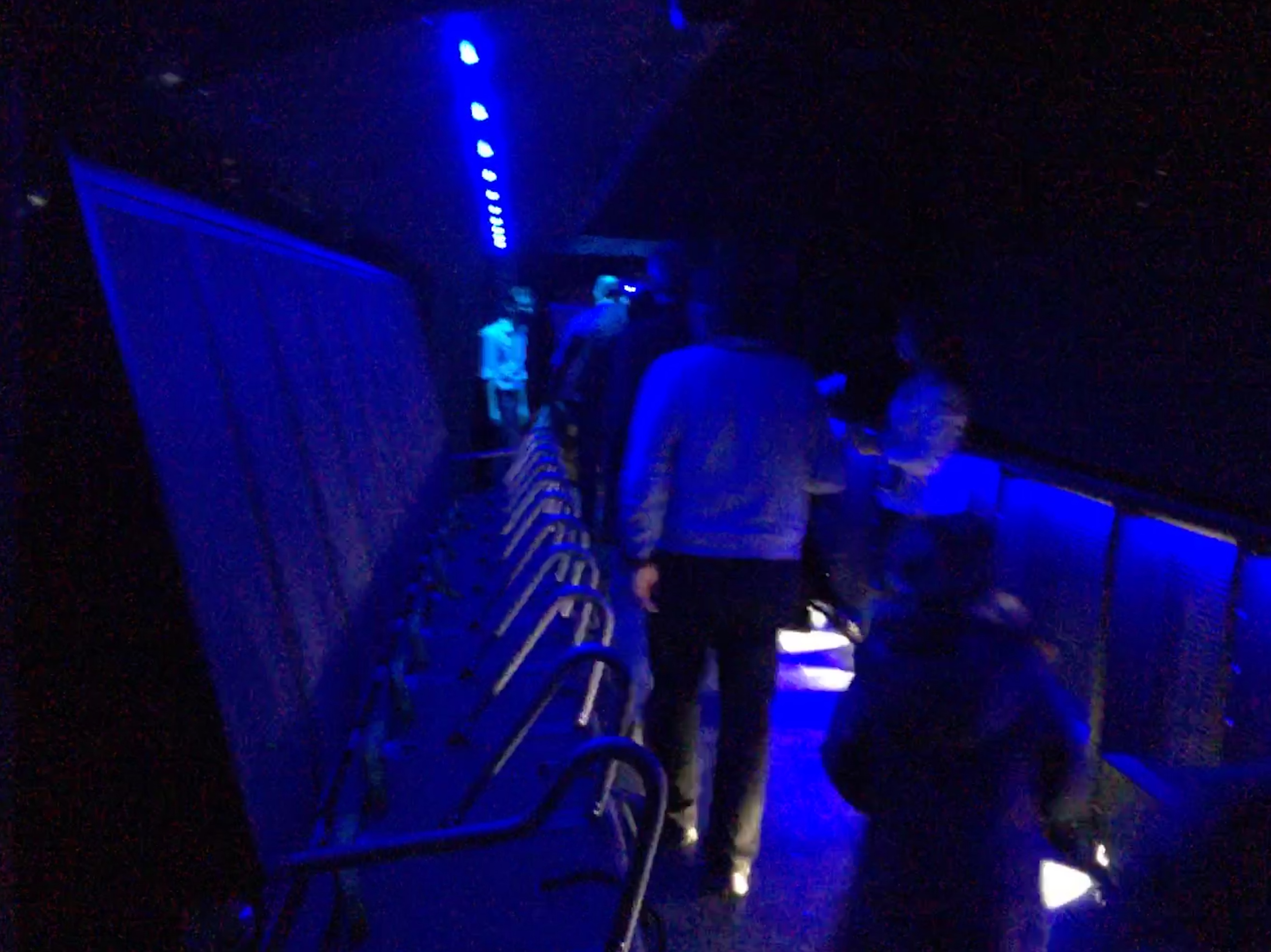 This Is Holland 4d movie